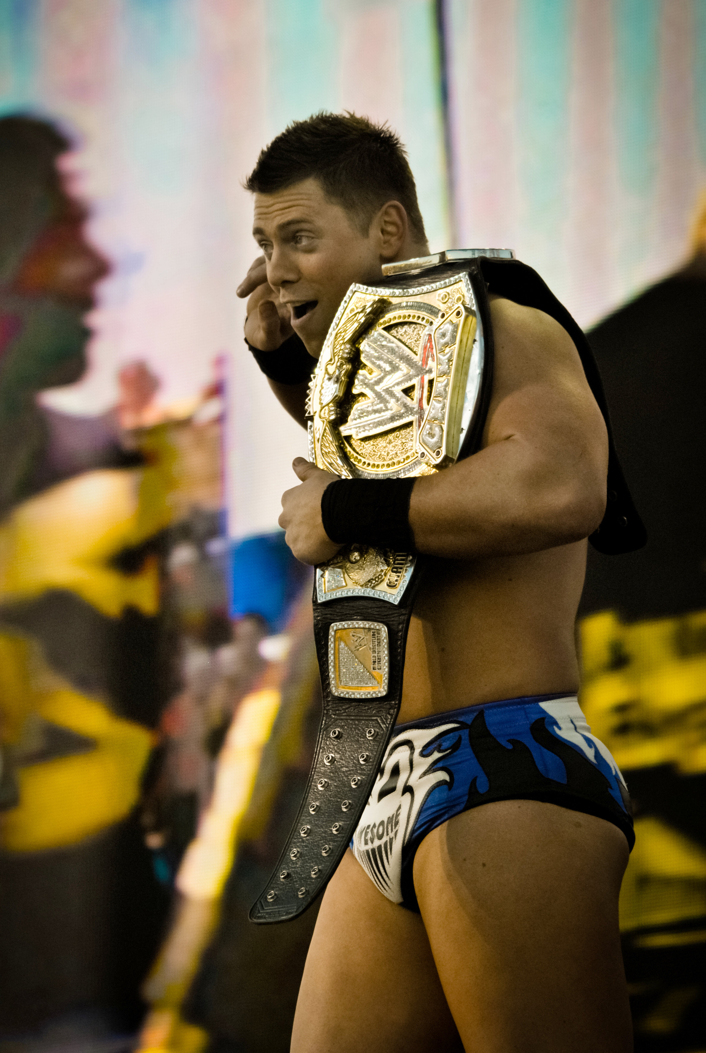 WWE Champion The Miz at WWE's Tribute to the Troops show on December 11, 2010, in Fort Hood, Texas.